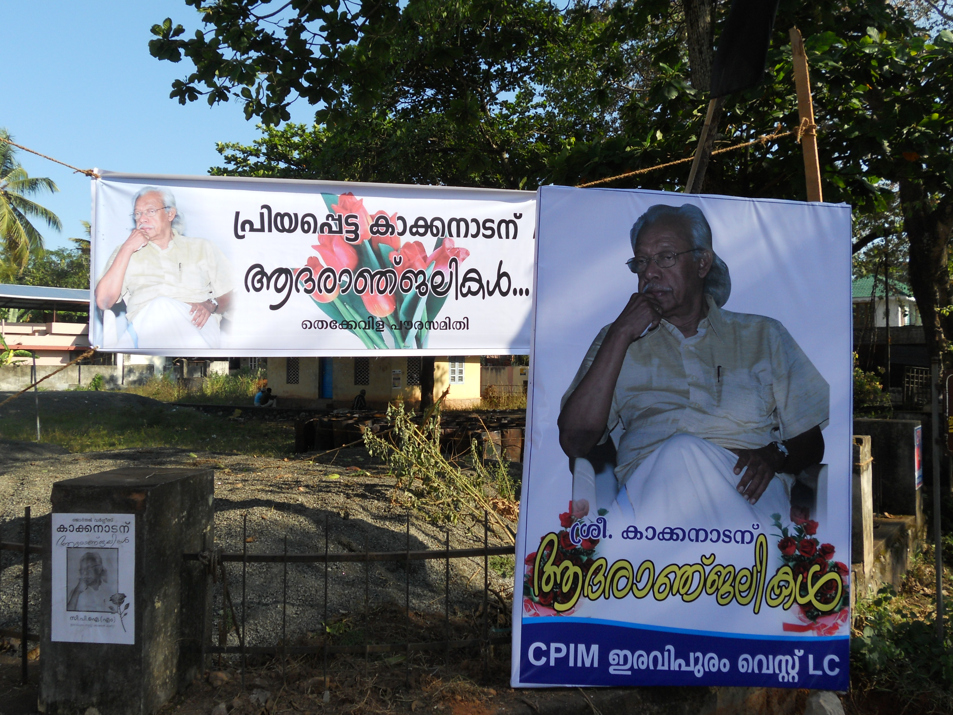 Hoardings and banners in Kollam town condoling the death of Kakkanadan, noted Malayalam writer